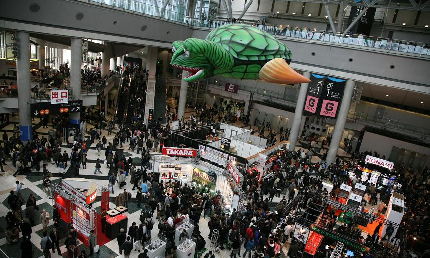 Depicts the crowded Atrium of the Tokyo Big Sight's West Exhibition Hall during Wonder Festival 2006 Winter held.